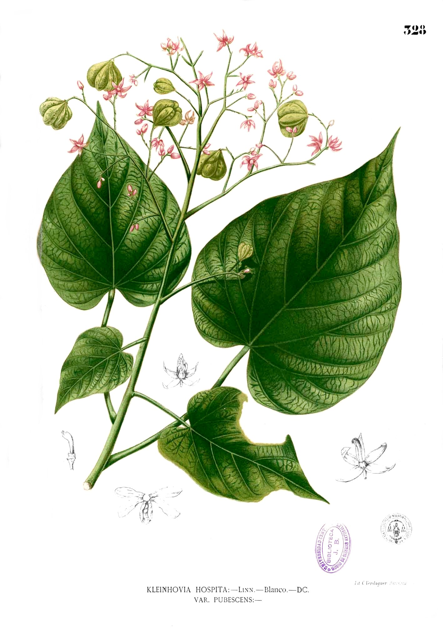 Plate from book